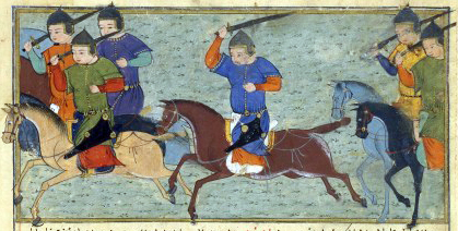 Flight of Tekuder's army. Jami' al-tawarikh, Rashid al-Din.